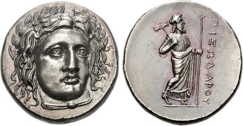 SATRAPS of CARIA. Pixodaros. Circa 341-0 to 336-5 BC